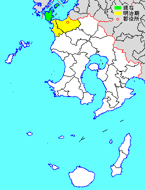 Location Map of Nagashima in Kagoshima Prefecture, Japan